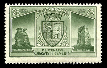 1933 Romanian Post, 25 bani, green, Series:Turnu Severin 100 years; Design:Constantinescu